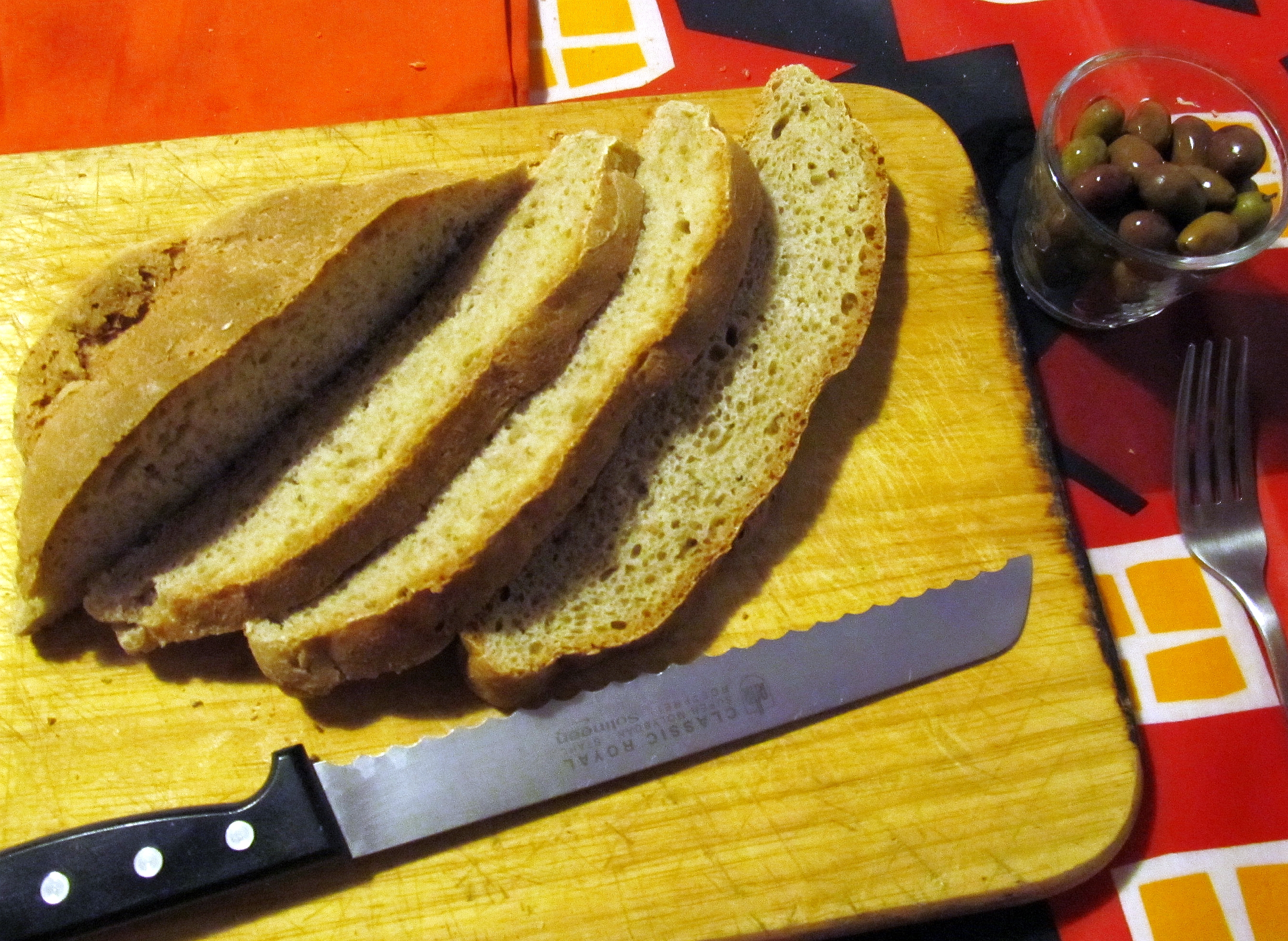 Pane di Triora (Triora bread)